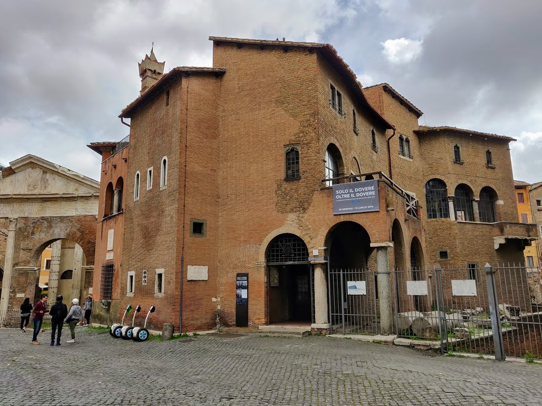 Area of the Jewish Ghetto of Rome (Italy)